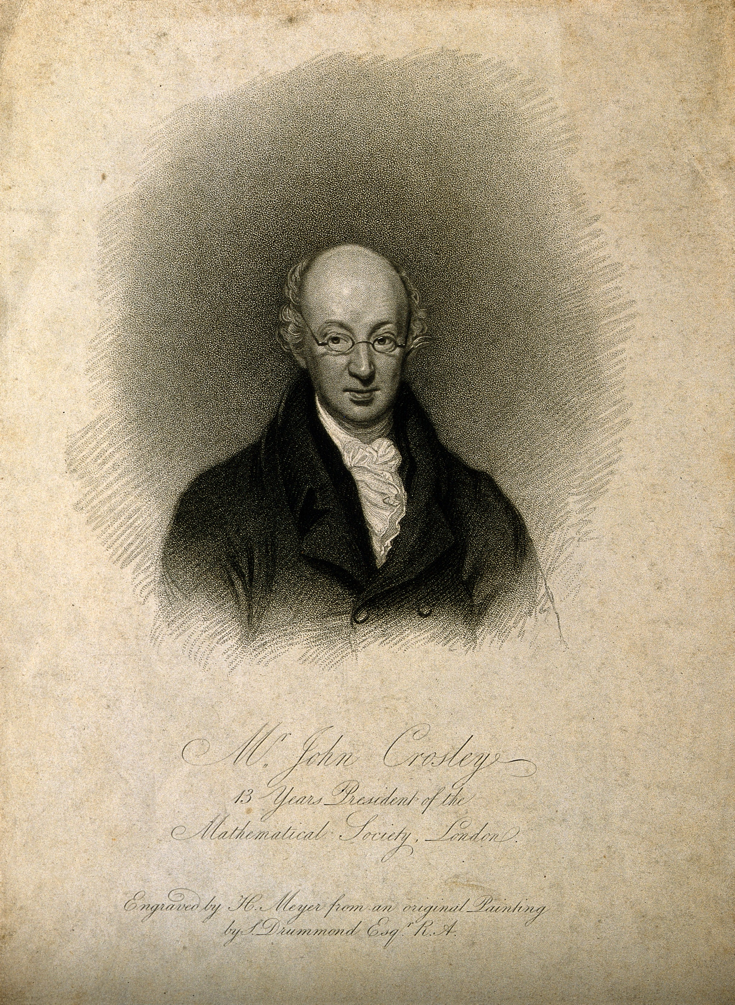 John Crosley. Stipple engraving by H. Meyer after S. Drummond. Iconographic Collections Keywords: portrait prints; Henry Meyer; John Crosley; stipple prints; crosley, john, fl. 1800